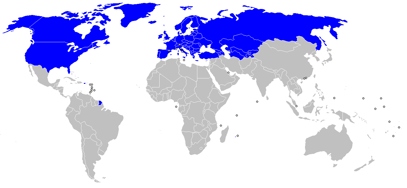 map of the EAPC (Euro-Atlantic Partnership Council)